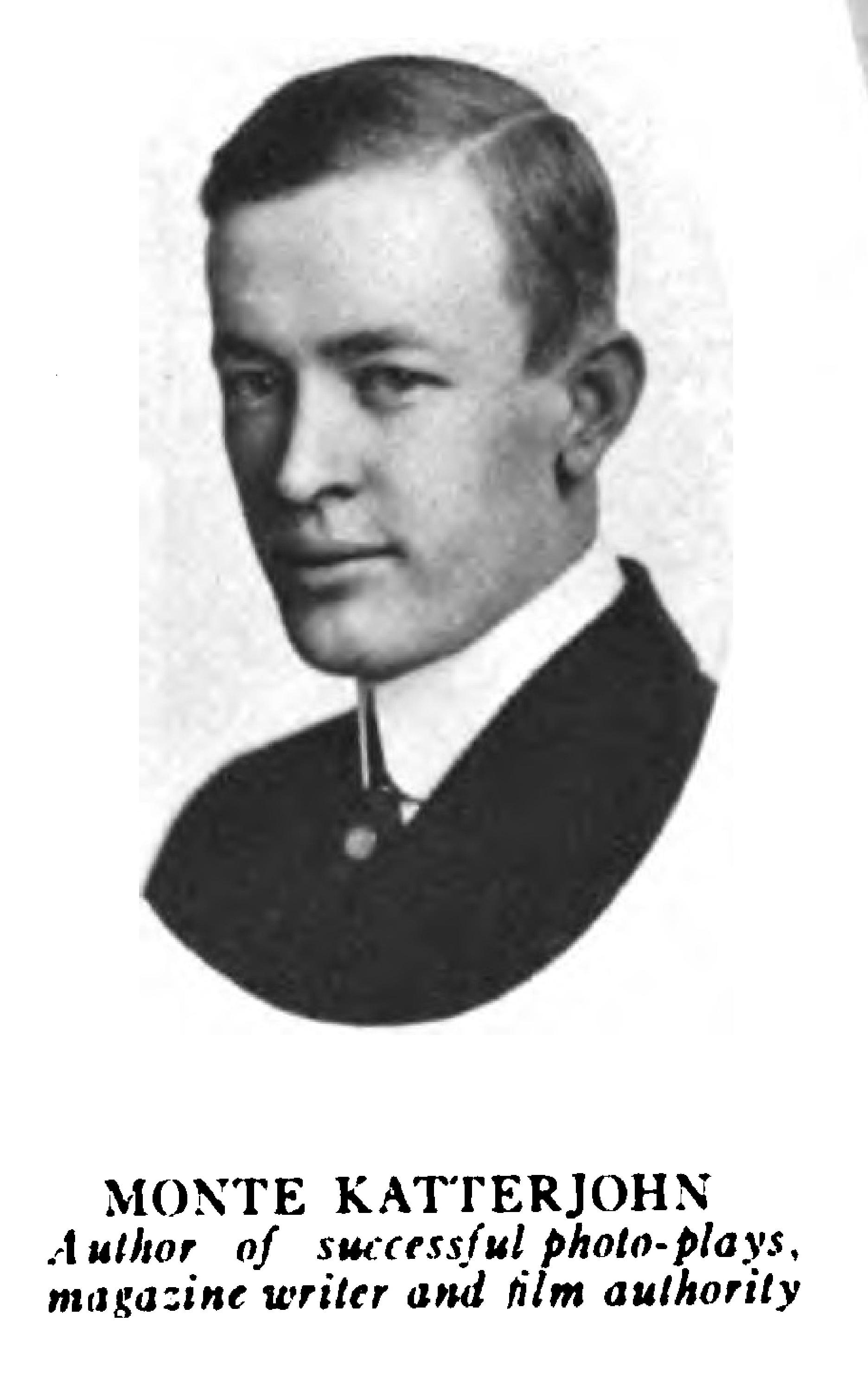 Monte M. Katterjohn (October 20, 1891 – September 8, 1949) was an American screenwriter.